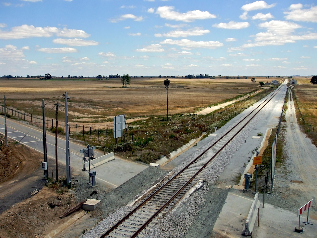 Railway Linha de Evora